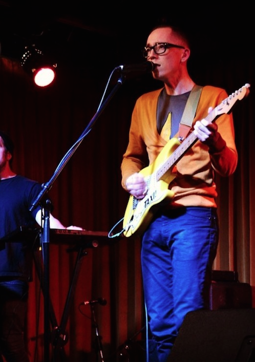 Olsen performing at The Drake with his band, Our Founders